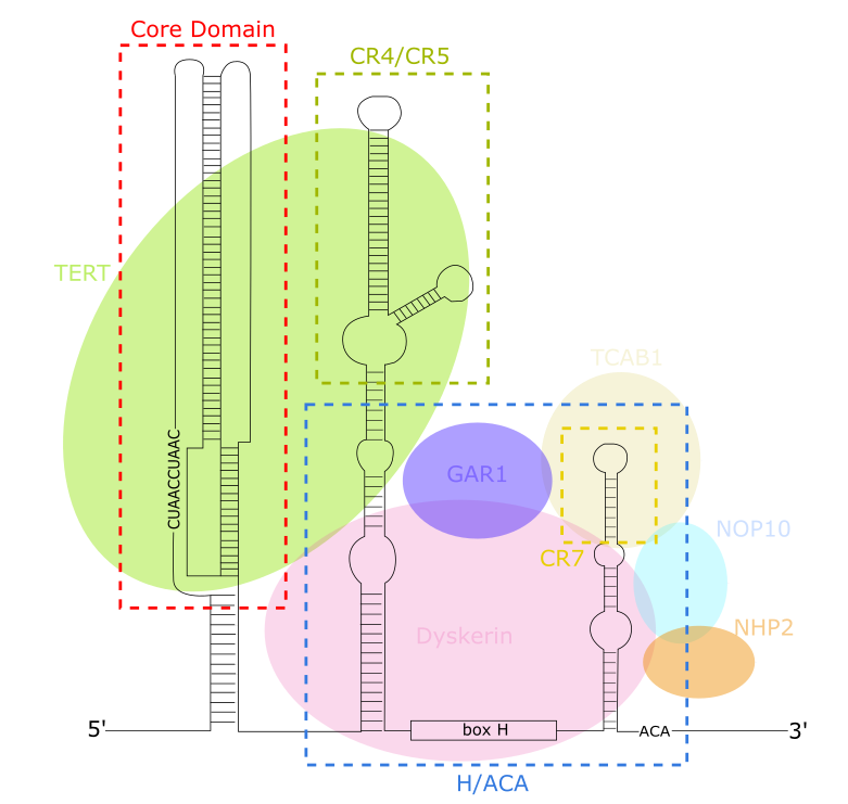 Graphical summary of the current (March 2020) literature understanding of structure of hTR, and which proteins it interacts with.